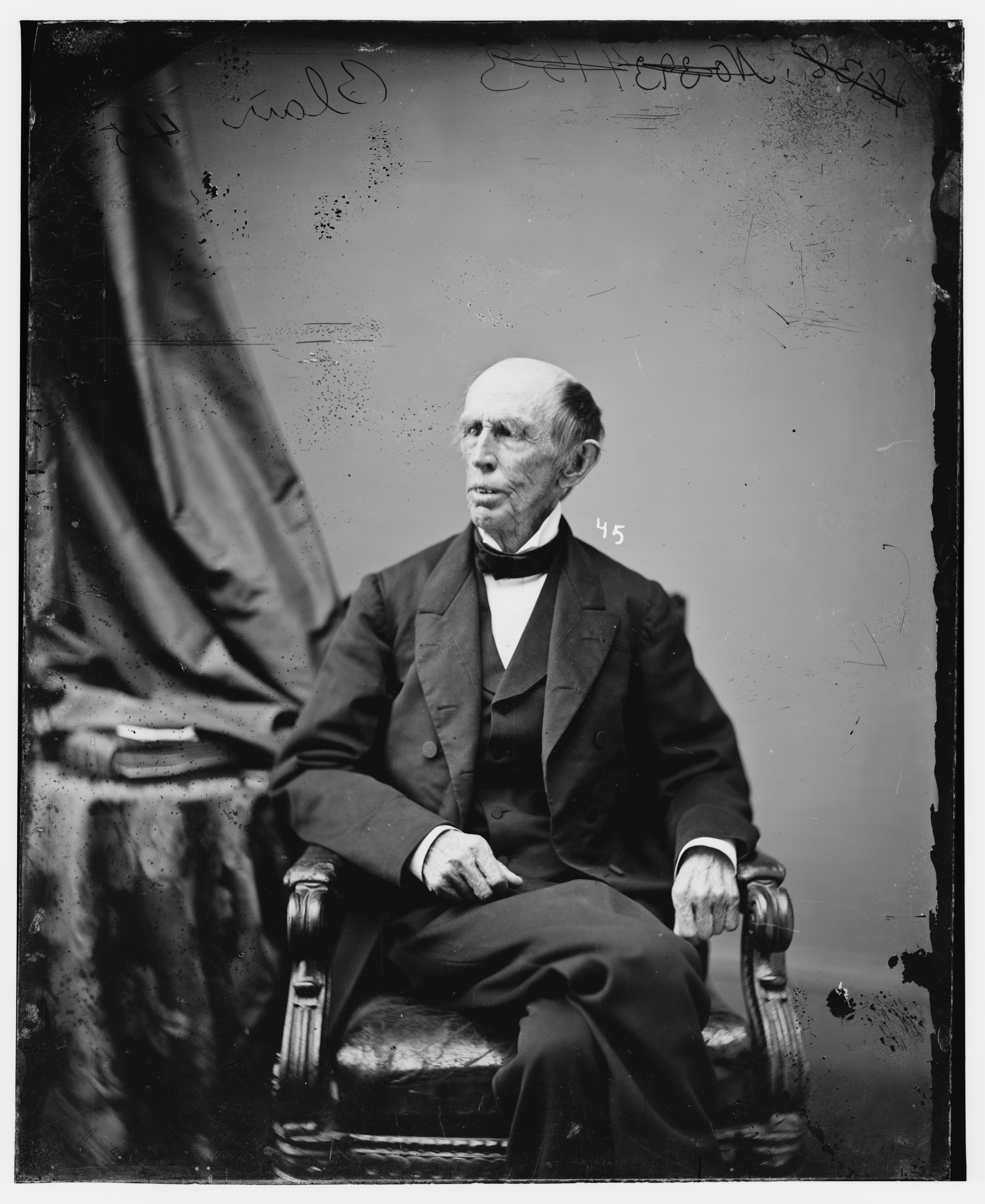 Francis Preston Blair (1791–1876)